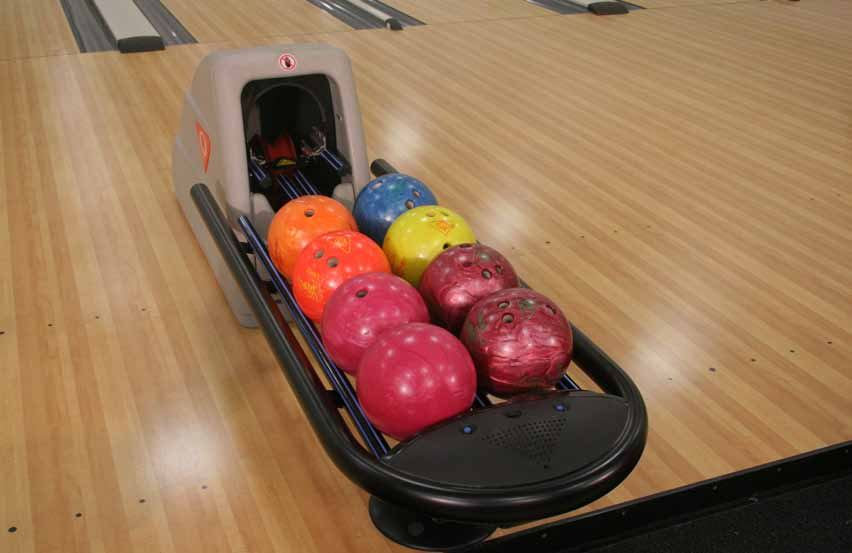 bowling